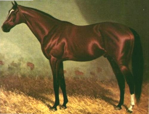 Carbine (NZ)(1885) was an outstanding Thoroughbred racehorse and sire.